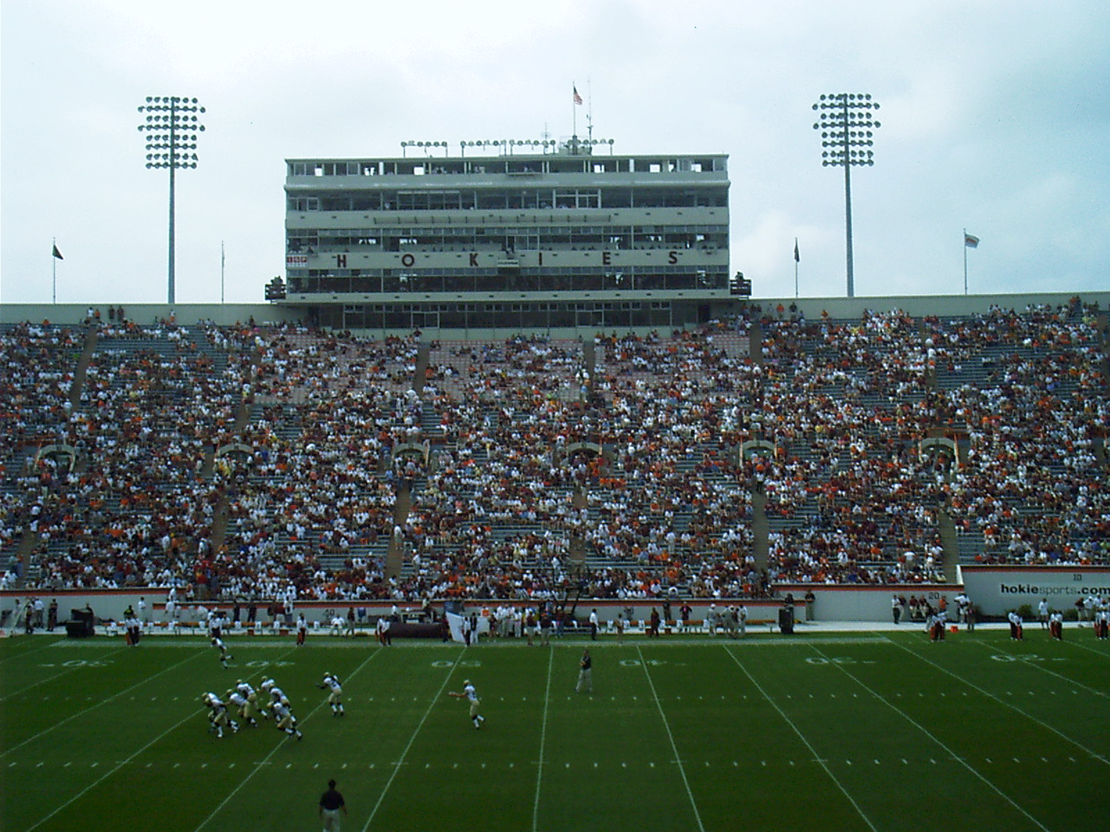 Virginia Tech's Lane Stadium as it appeared in 2003, before our game against Central Florida.